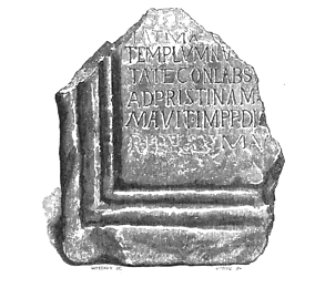 Building dedication (temple) by the First Aelian Cohort of Spaniards, found before 1794 in Netherby (GB).